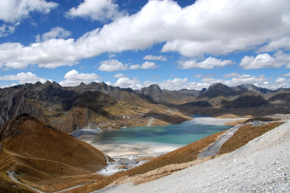 The tailings pond of the Antamina Tailings Dam at the Atamina Dam in Peru.